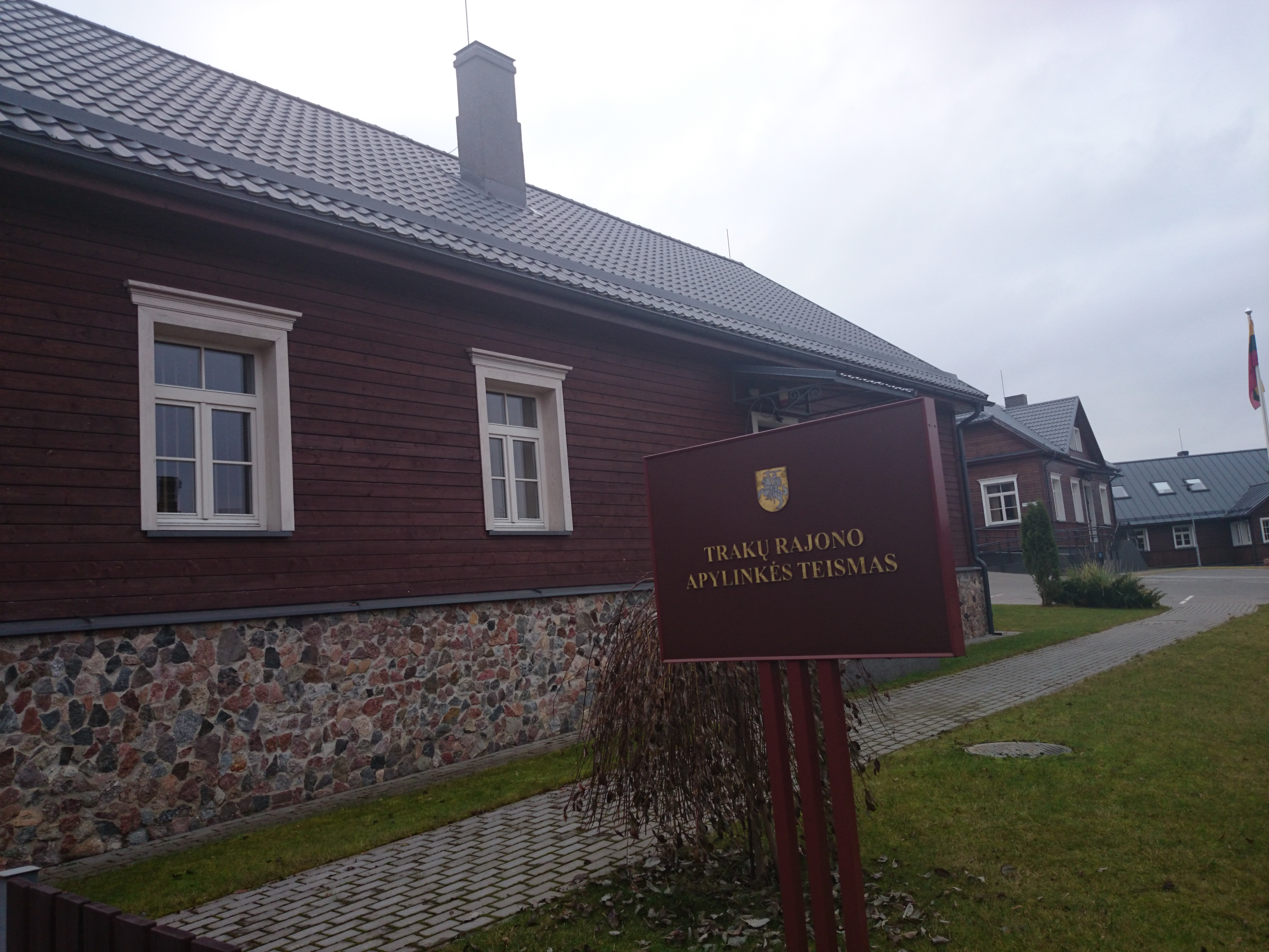 Trakai